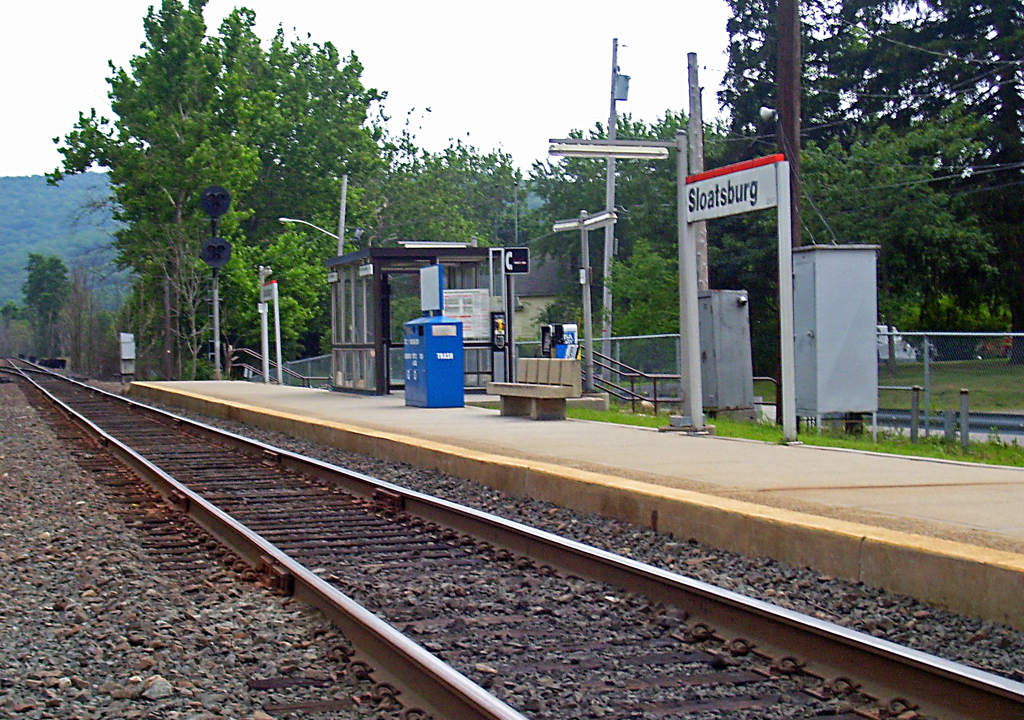 Photographed by Daniel Case 2006-07-27